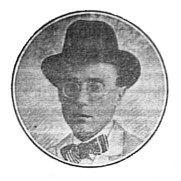 Pedro Barragán Montemayor year 1921